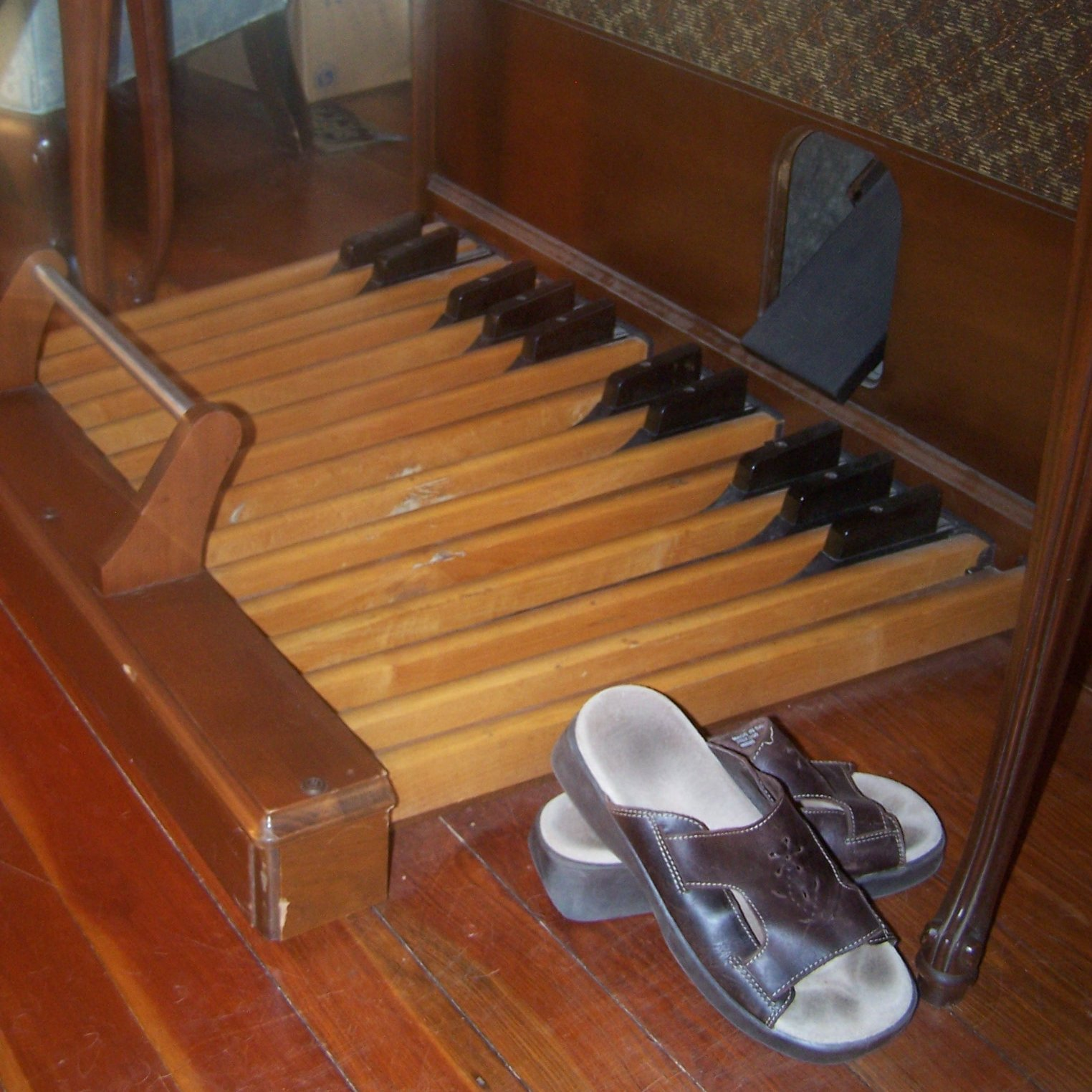 A photograph of the pedalboard of my Wurlitzer electronic console organ, with my shoes added as a size reference. :)